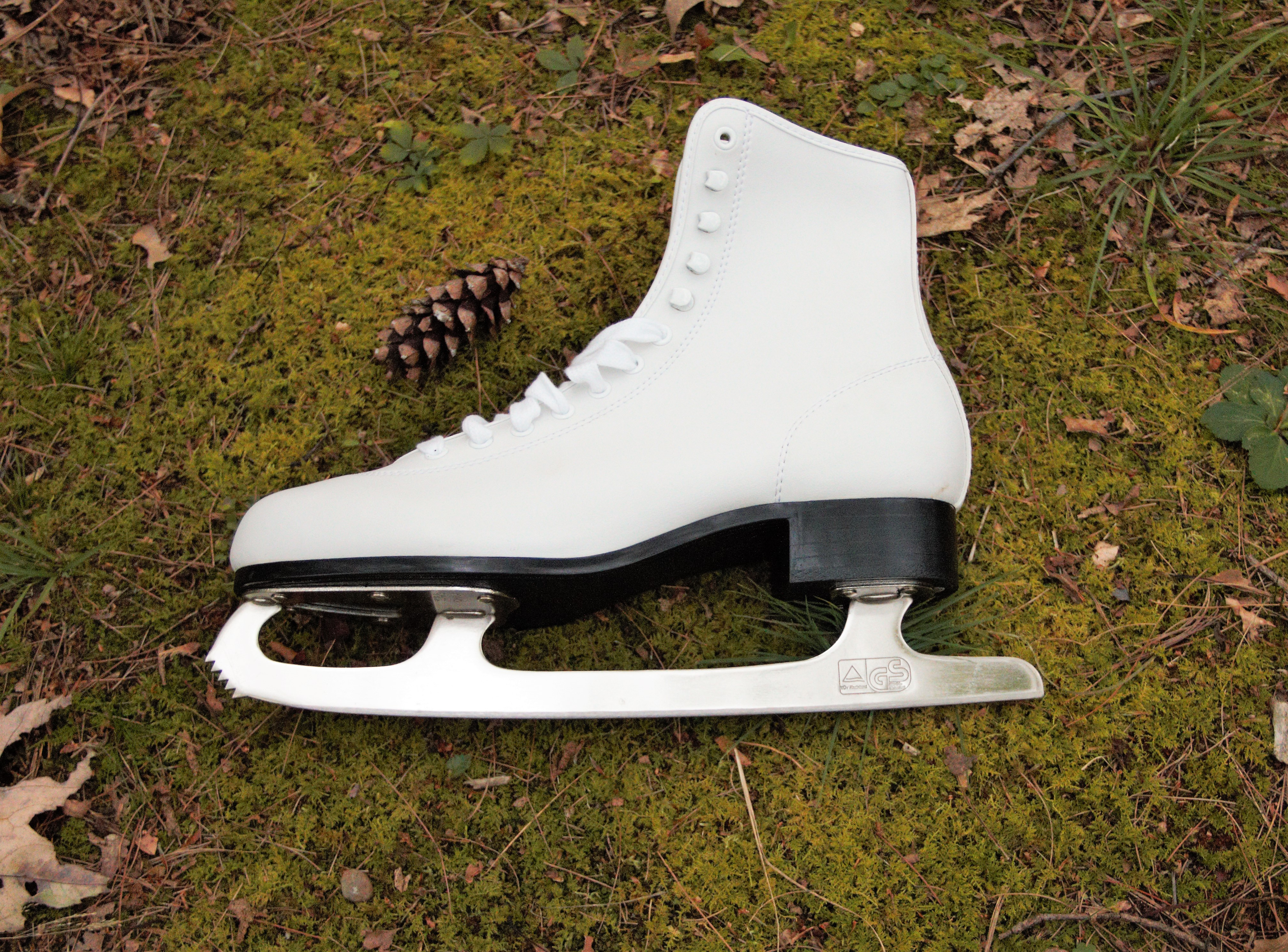 An elegant close up of the natural beauty of a figure skate.